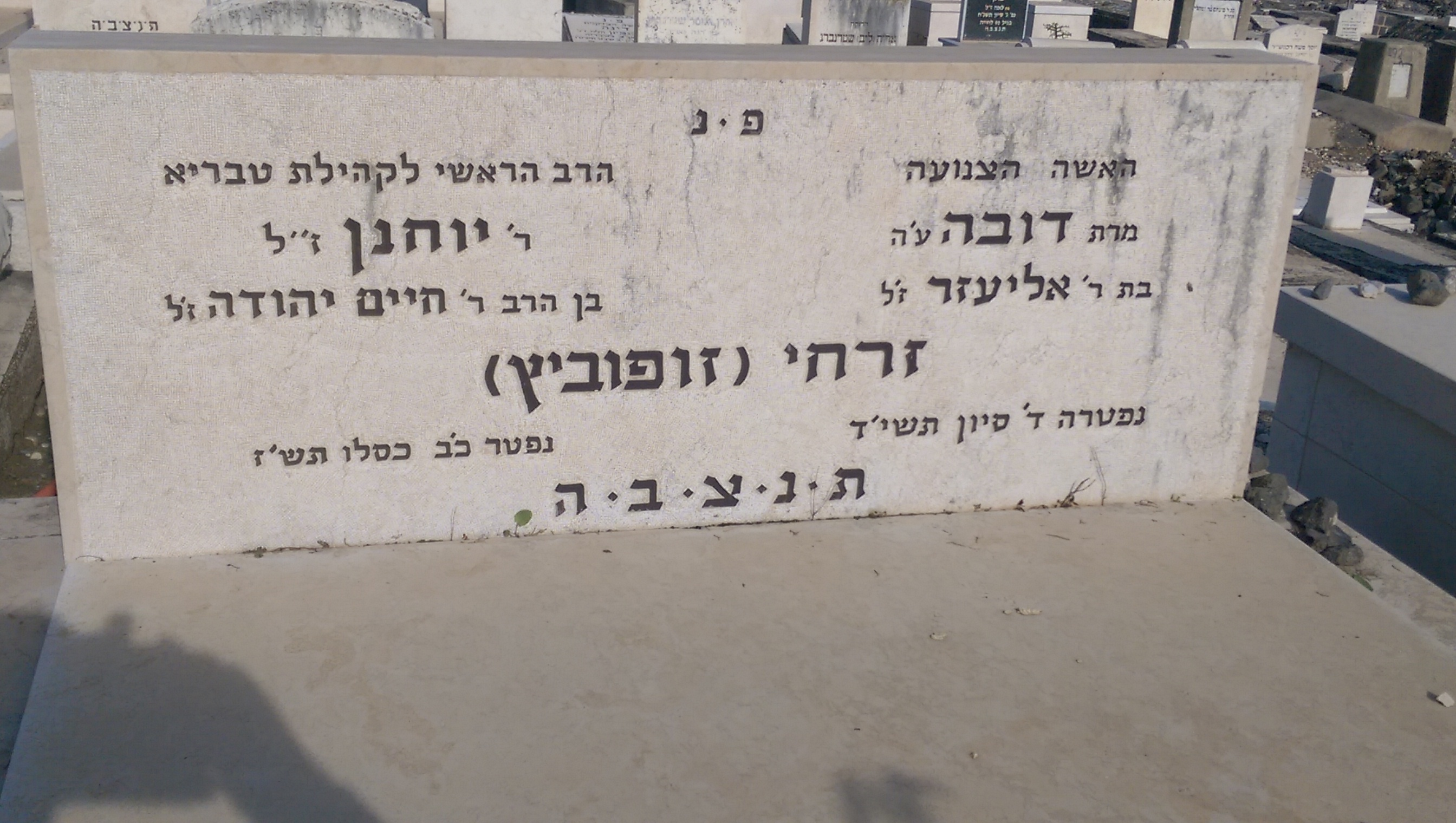 The grave of rabbi Yohanan Zachi, 2016